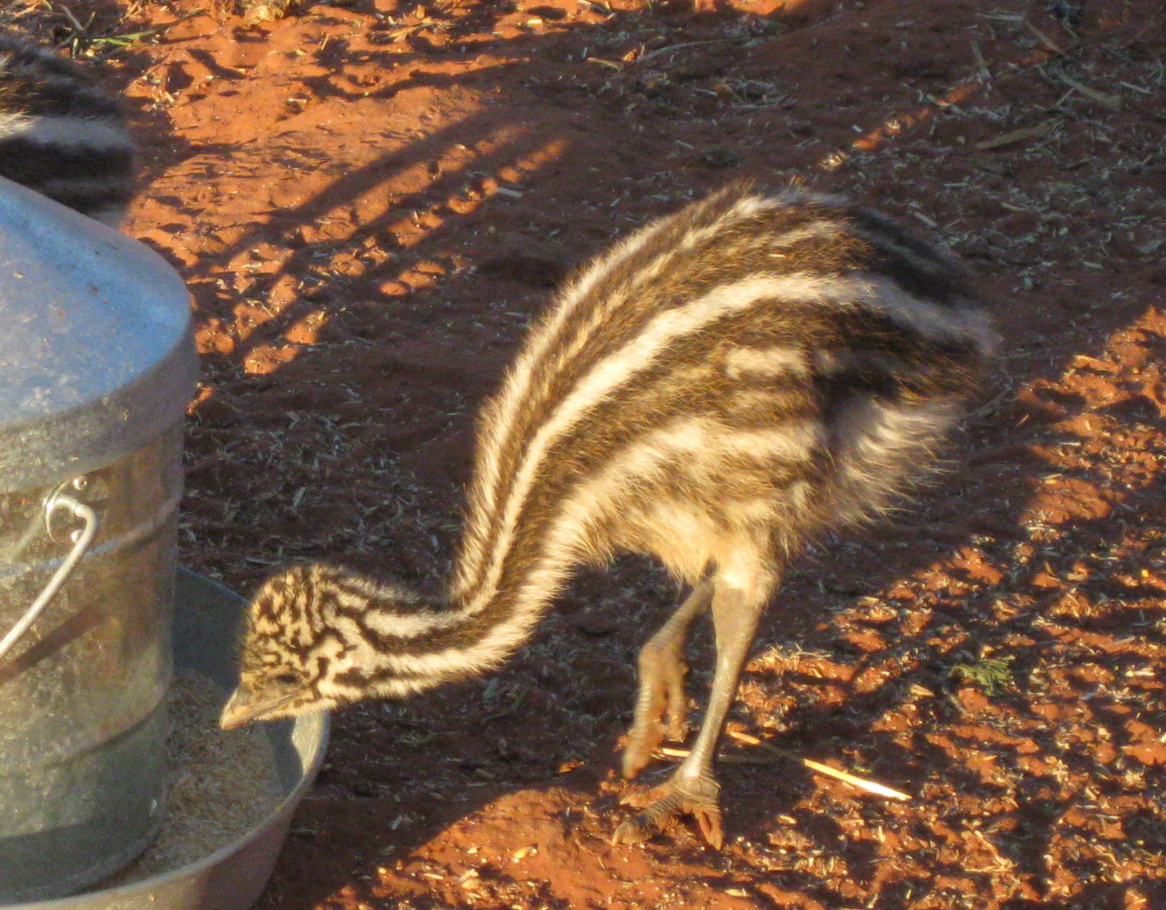 Emus are being bred on Angas Downs Indigenous Protected Area to increase numbers on the property. Emus are important to the traditional owners of Angas Downs.